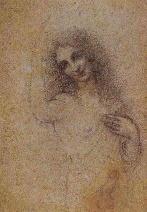 Erotic drawing, see Leonardo's John the Baptist. The blog spot from which it was uploaded identifies and dates the picture correctly. See also page 18 of Alessandro Vezzosi's book Leonardo e lo sport: arte, scienza, tecnica e mito.